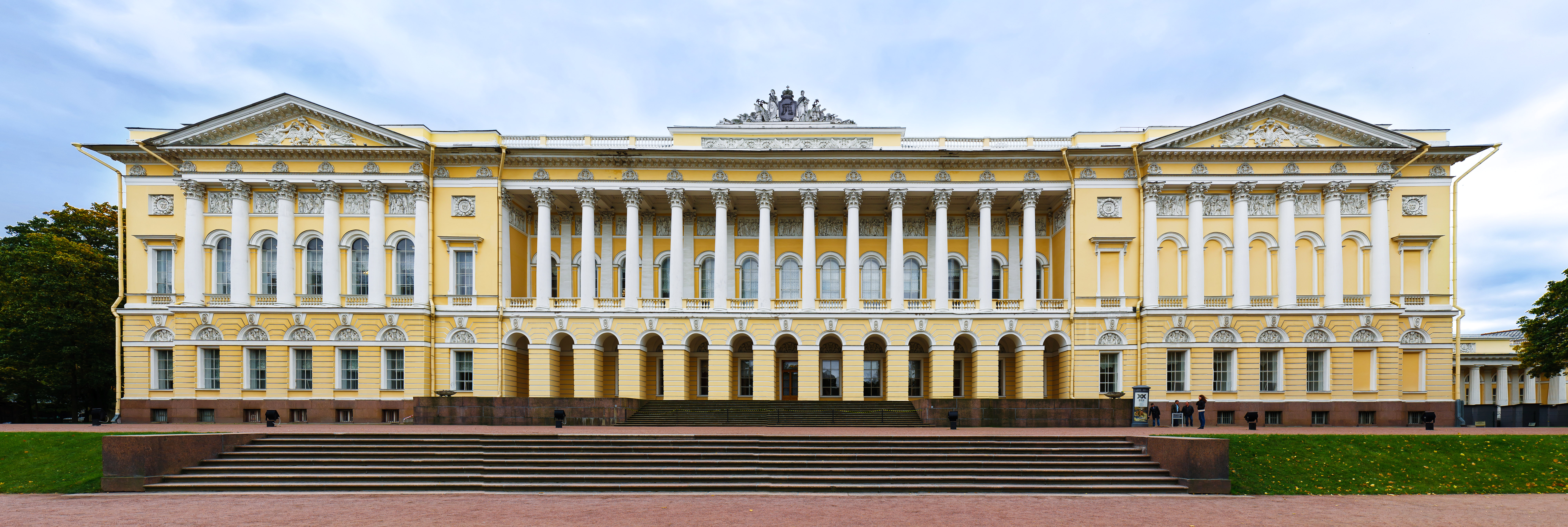 Mikhaylovsky Palace